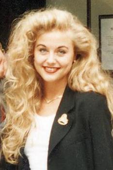 Johanna Lind as Miss Sweden, as released by image owner Lars Jacob ProdPlace: NK, Hamngatan 18-20, Stockholm, Sweden